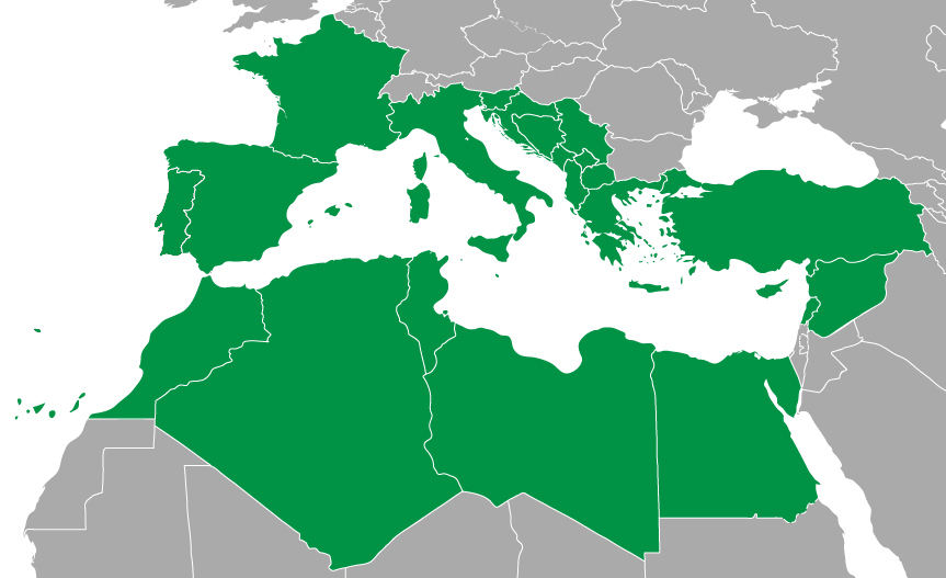 I used a blank map of the world from Wikisource to cut the Mediterranean region and color the countries that take part into the Mediterranean Games.